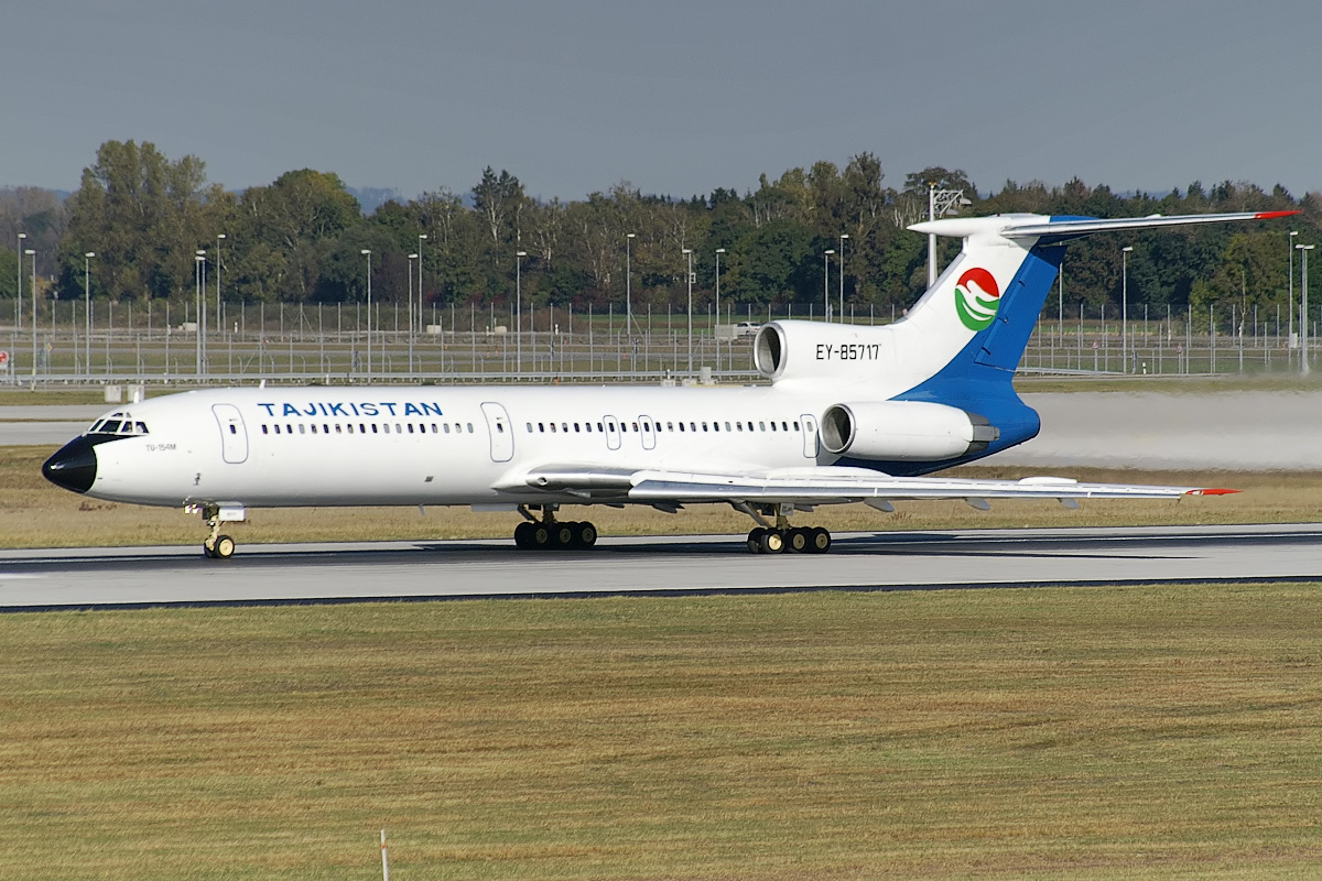 Tajikistan Airlines Tu-154 EY-85717 at Munich Airport